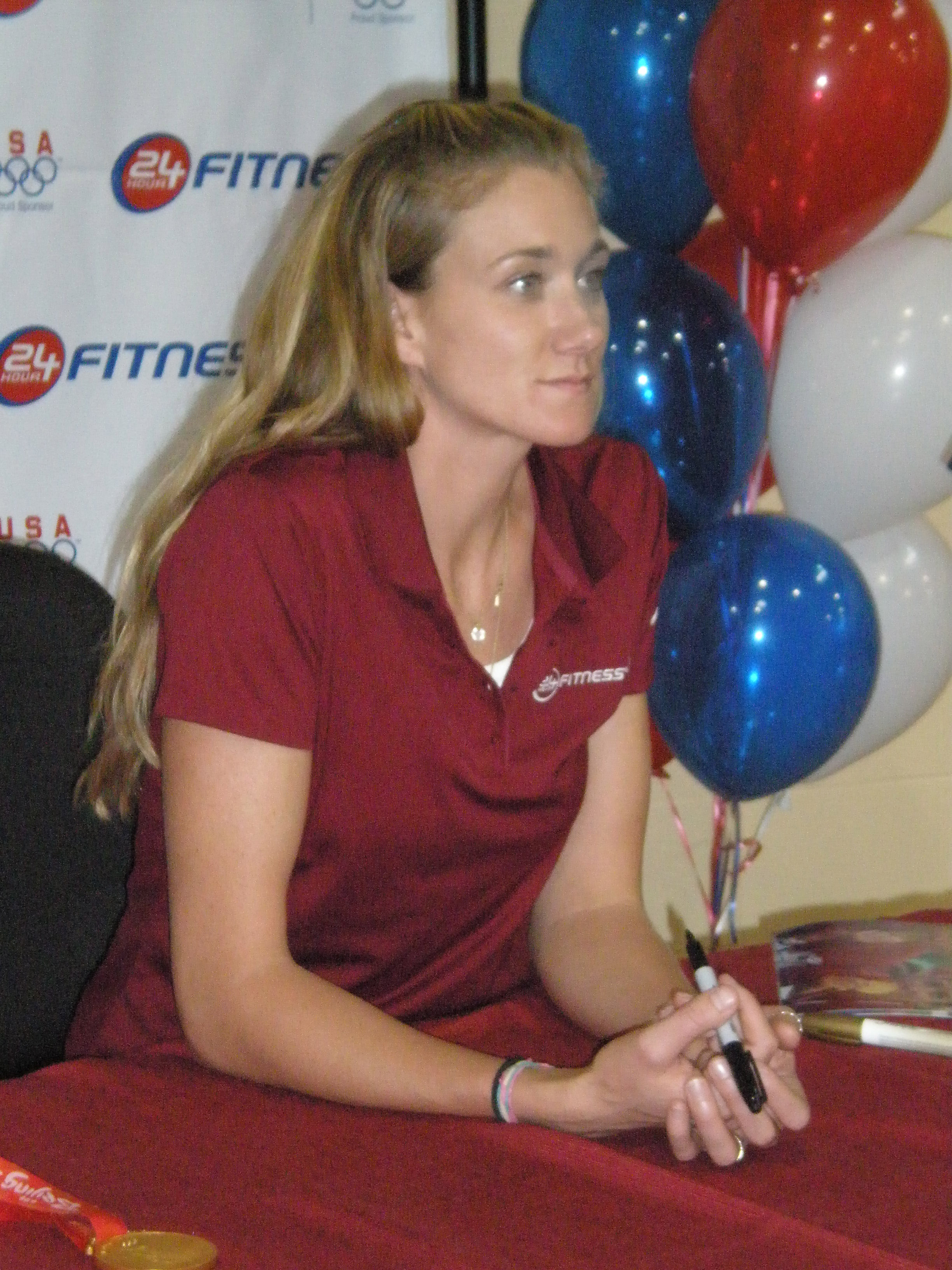 2004 and 2008 women's beach volleyball Olympic gold medalist Kerri Walsh making an appearance at a 24 Fitness in San Mateo, California.